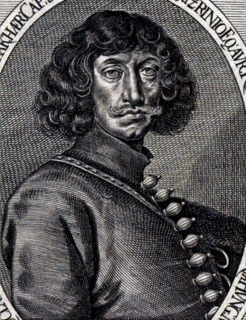 Self-made cropped version of a painting by Elias Widemann, 1652.